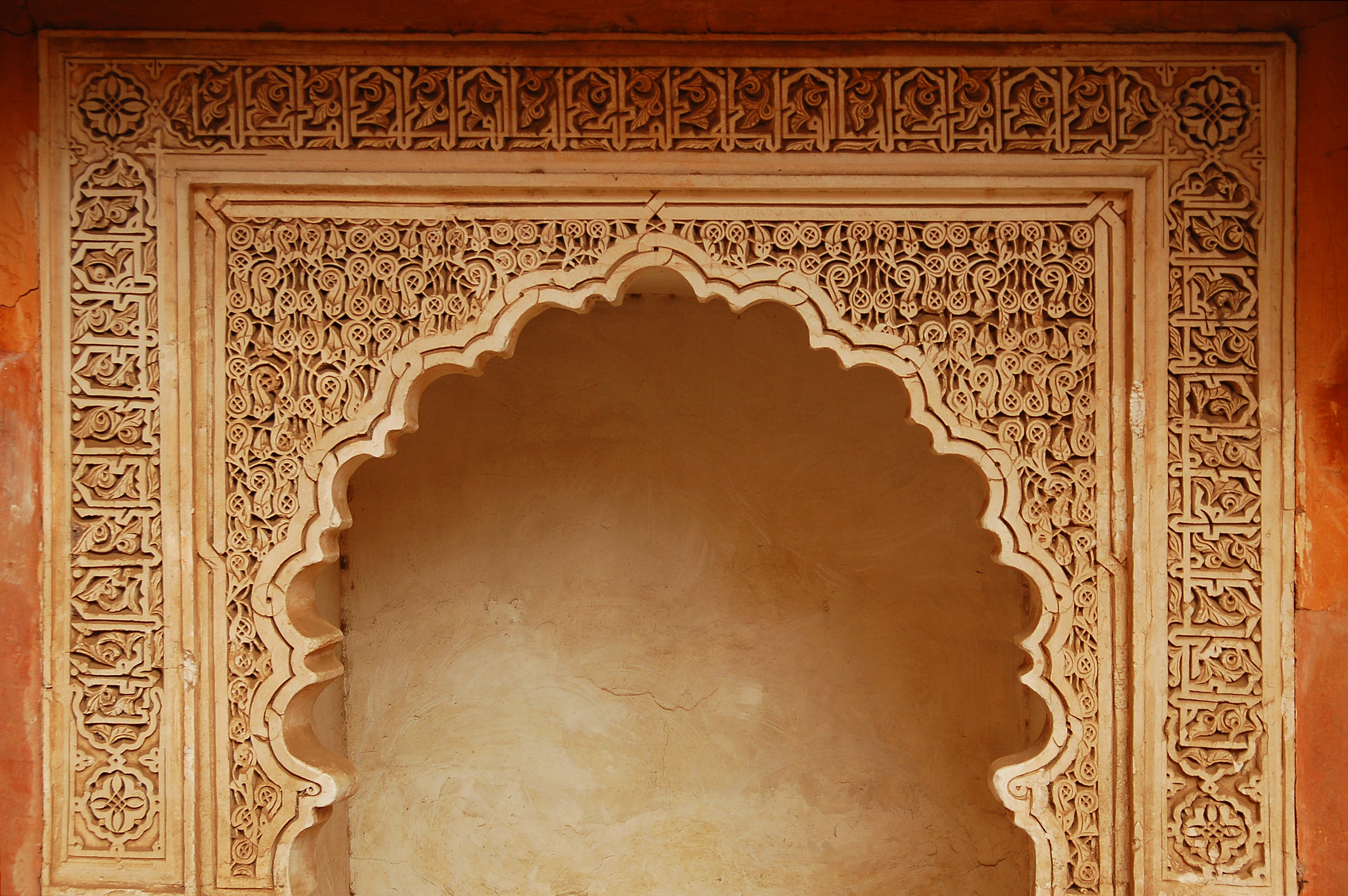 Maroc Marrakech city Saadiens tombs